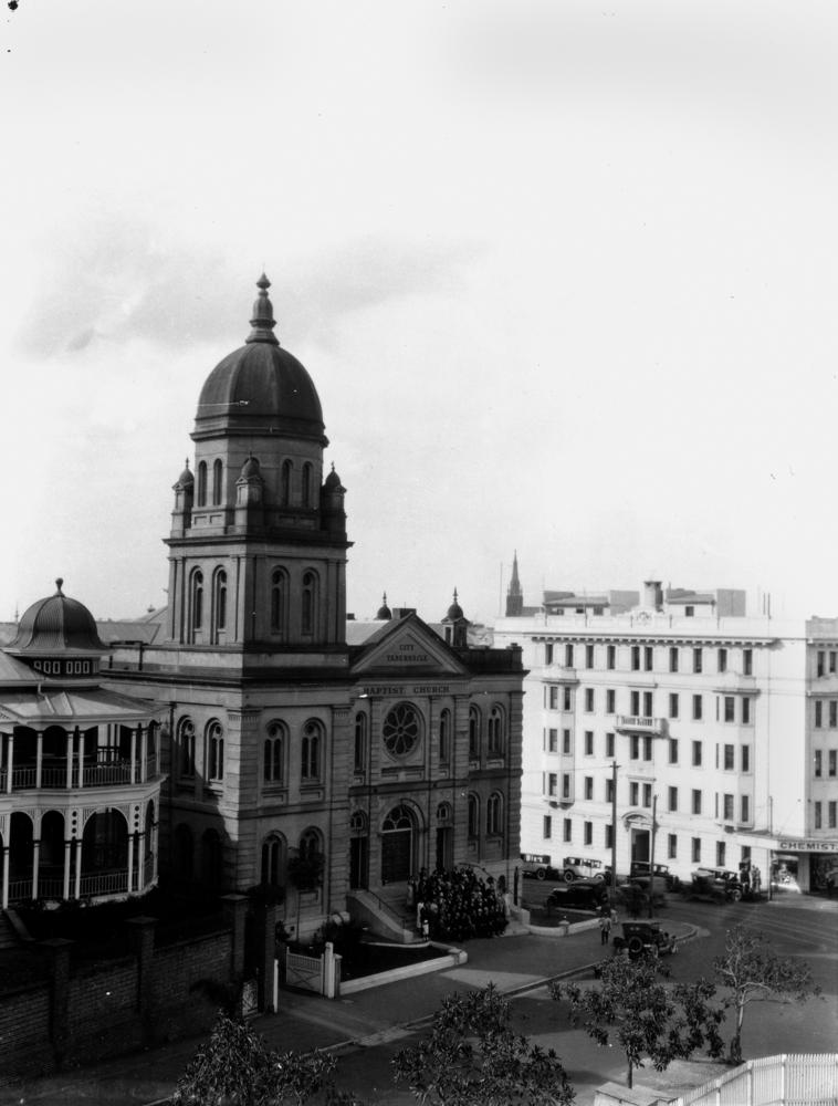 City Baptist Tabernacle, Wickham Terrace, Brisbane taken about 1929 City Baptist tabernacle was designed by Richard Gailey and erected in 1890, the first service being held on 12 October 1890. To the left of the tabernacle is the two storey reisdence Montpelier, and to the right is the intersection of Wickham Terrace and Upper Edward Street.